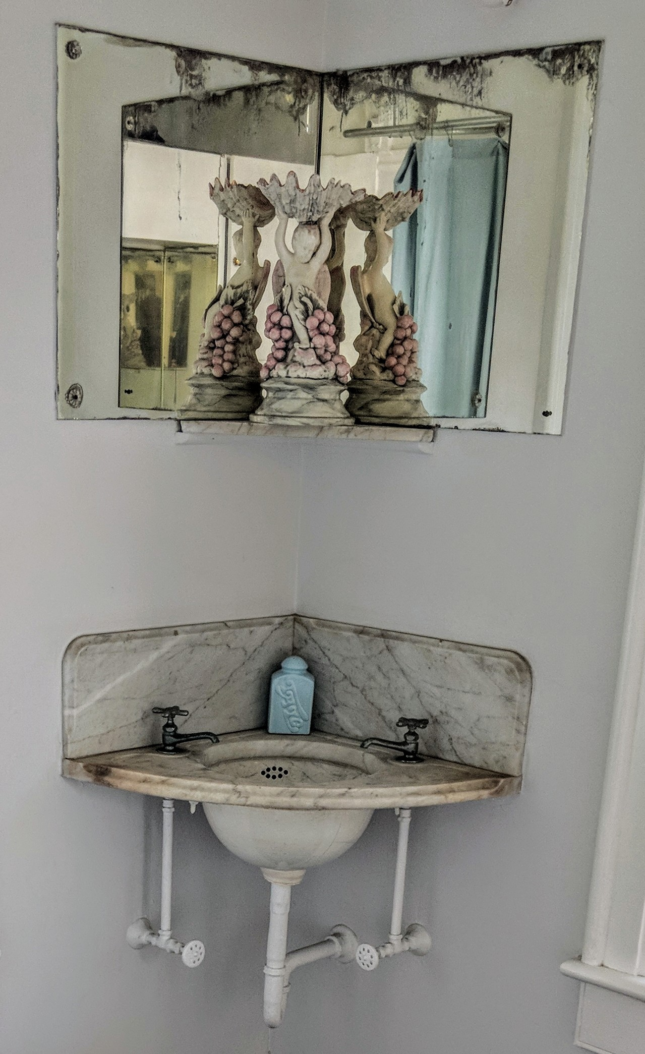 A marble vanity sink and mirrors in the Ernest Hemingway House in Key West, Florida. Photo by Jim Heaphy.